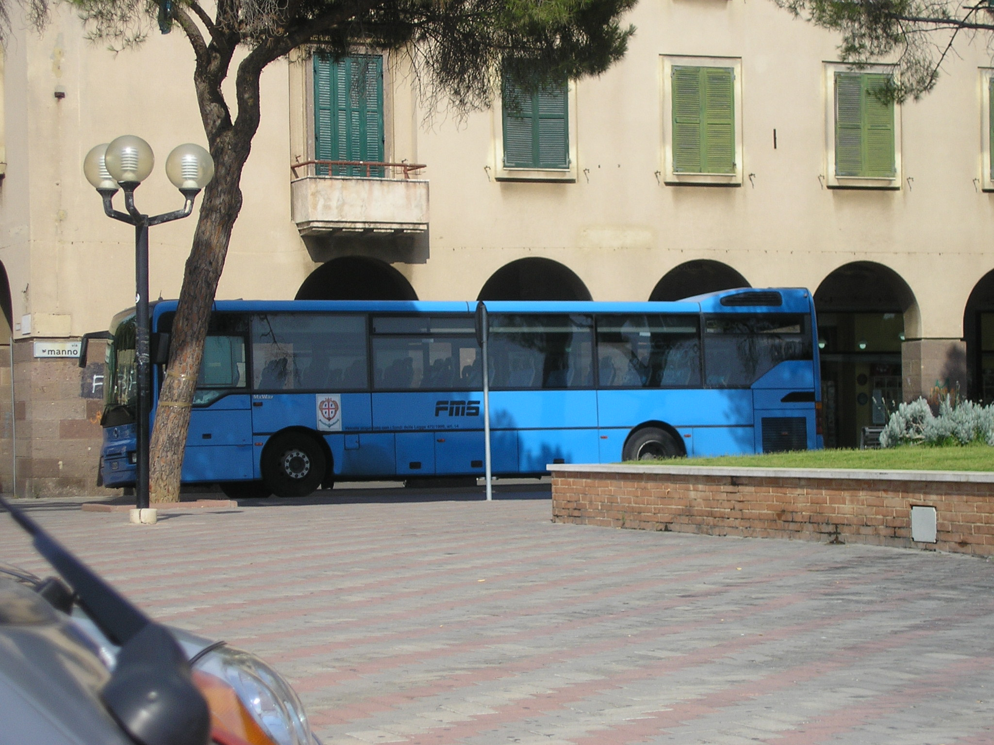 Ferrovie Meridionali Sarde bus model Irisbus MyWay, parked in Via Manno halt in Carbonia, Sardinia, Italy.